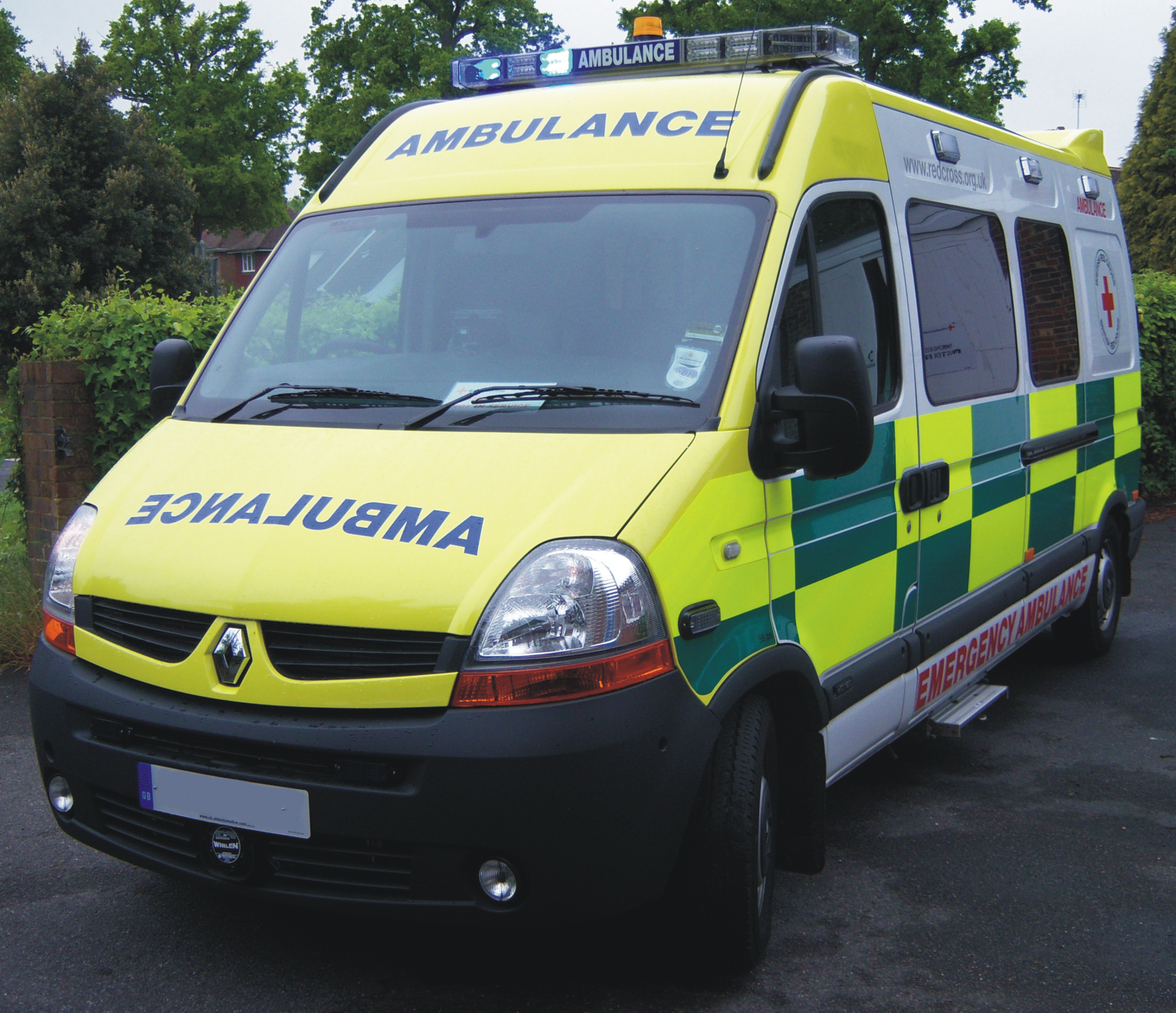 3/4 photo of British Red Cross Ambulance